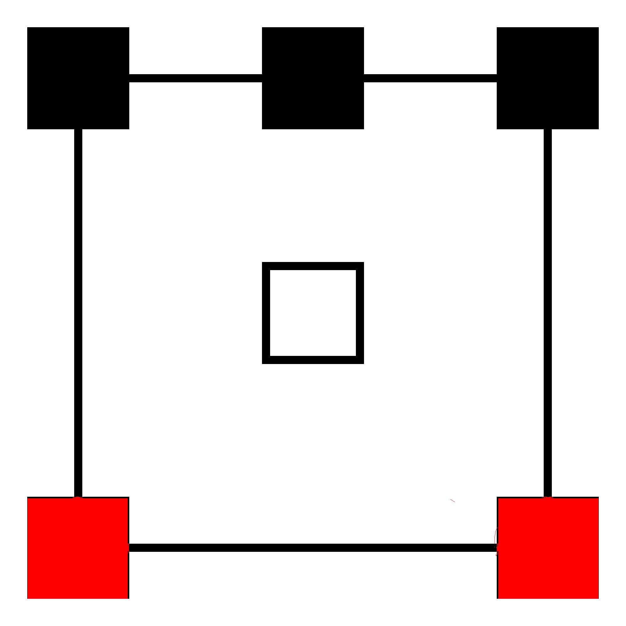 Surround channels of a 5.1 system emphasized in red